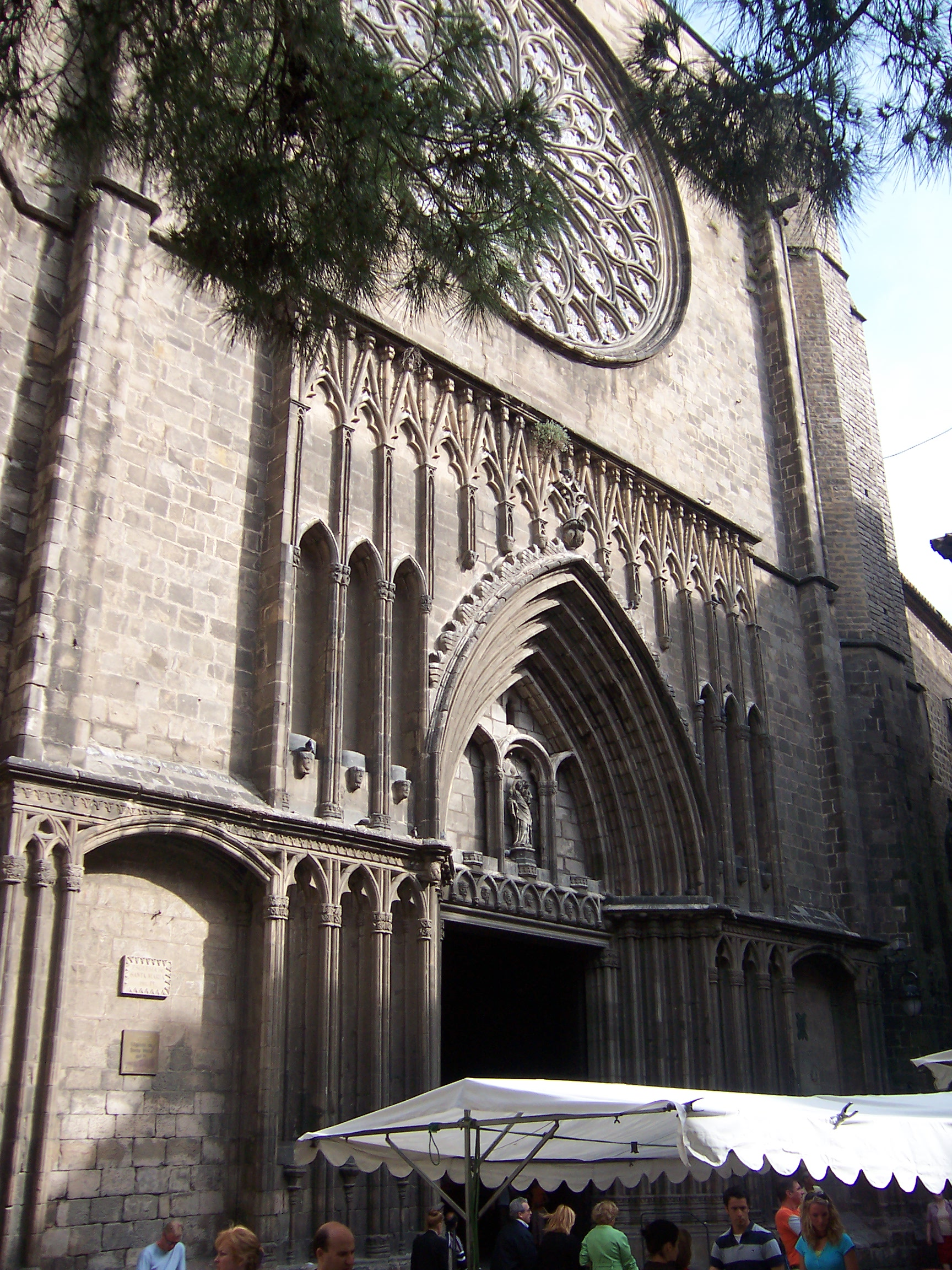 Pí Square Church, in Barcelona.